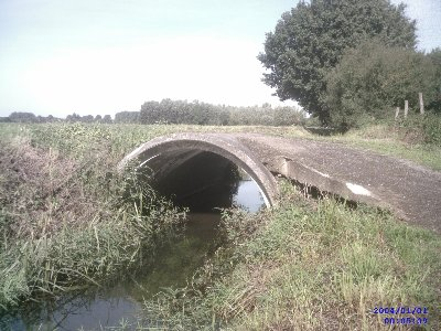 Bicycle-viaduct crossing the Flöthbach, Germany.